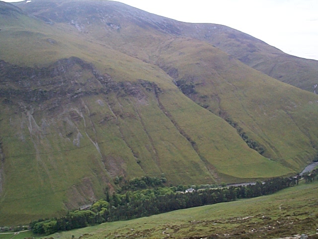 Mudslides on hillside to south of Forest Lodge Glen Tilt. These were noticeable after several days of heavy rain. Fortunately they were quite small and did no damage.